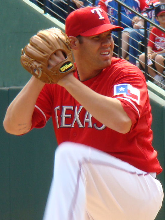 Colby Lewis, Texas Rangers pitcher.